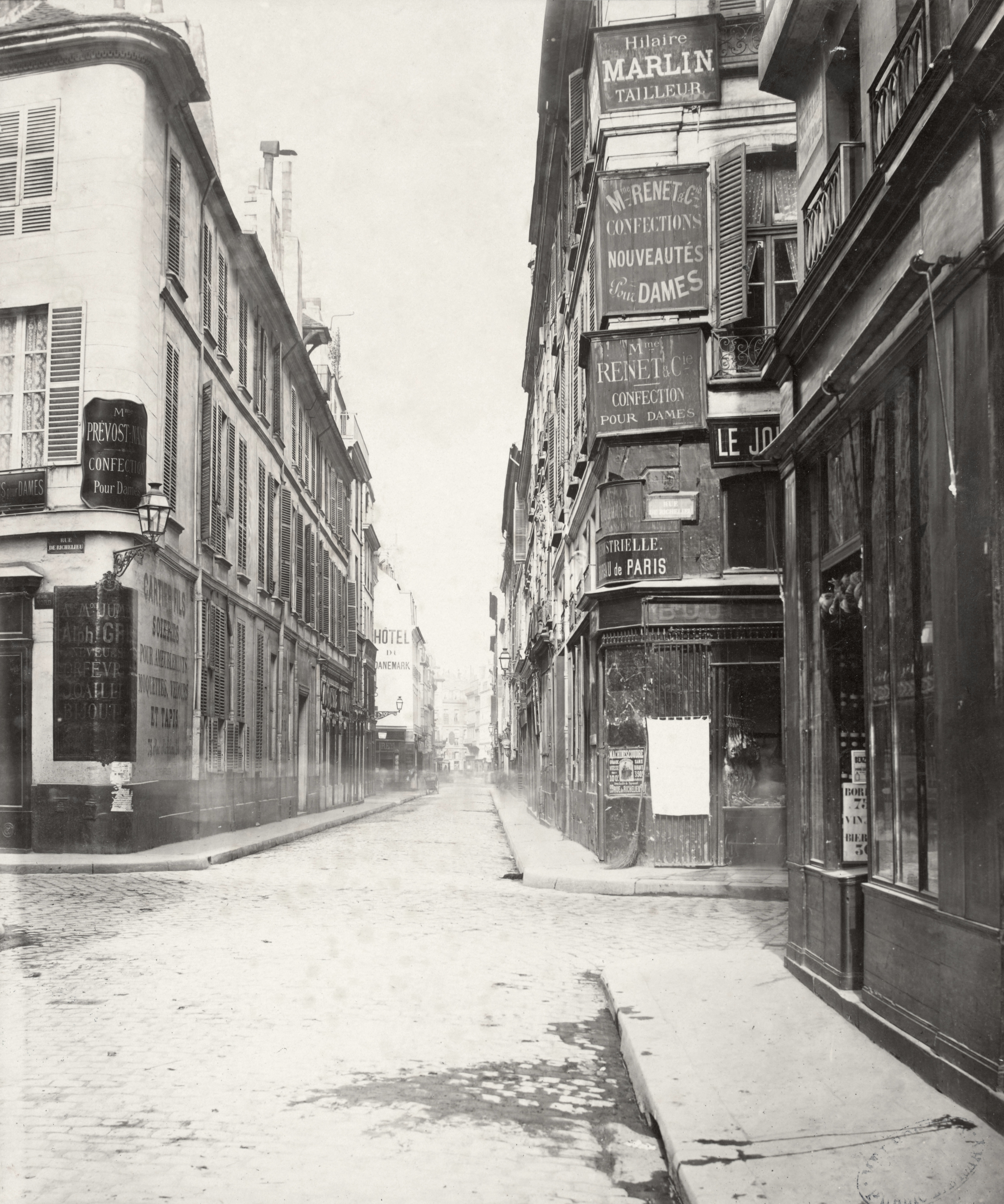 Looking along narrow cobbled street with rue Richelieu intersecting.